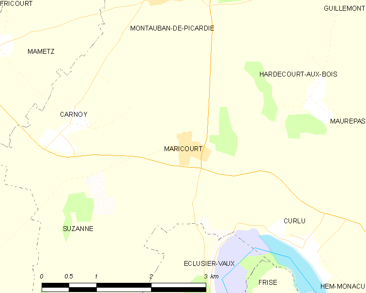 Map of French municipality Maricourt